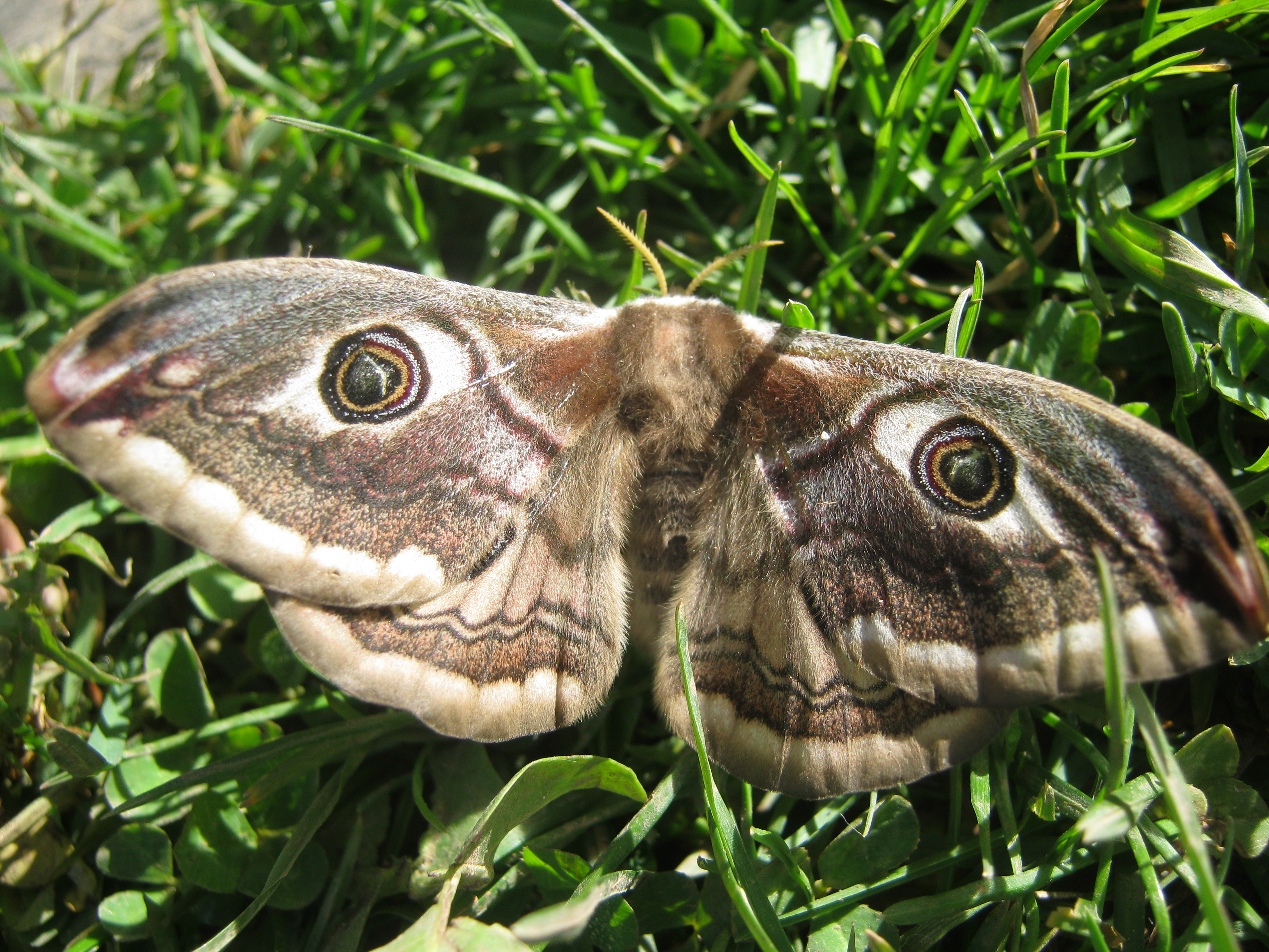 Moth in the morning.